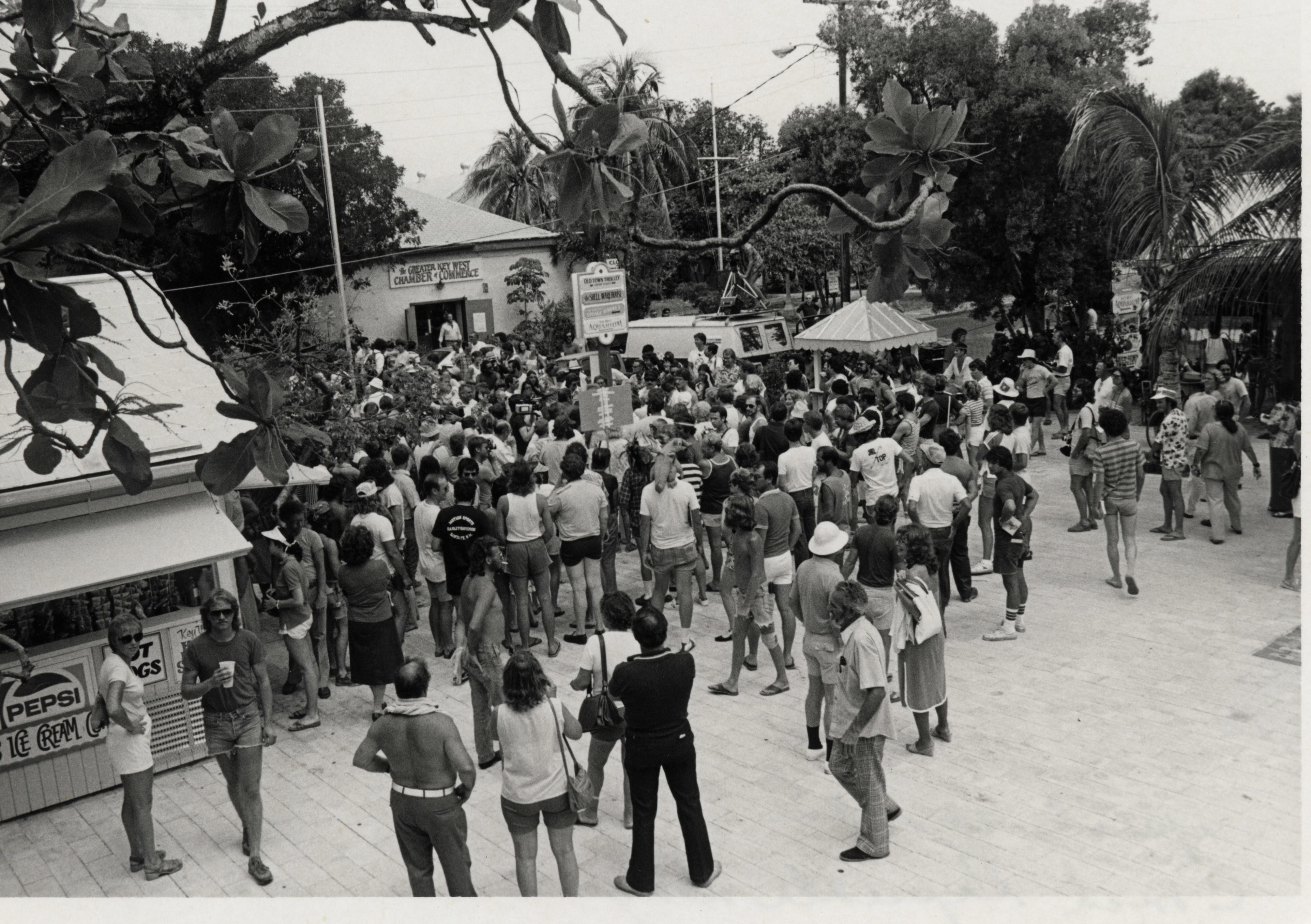 The founding of the Conch Republic - April 23, 1982.